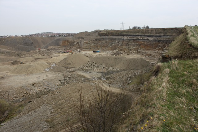 Bolton Woods Quarry Sandstone is being quarried at Bolton Woods, Bradford. Access difficulties prevented the taking of the photo within grid square SE163!